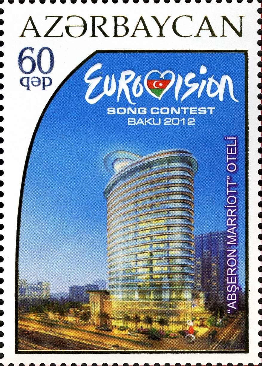 "Eurovision - 2012" song contest